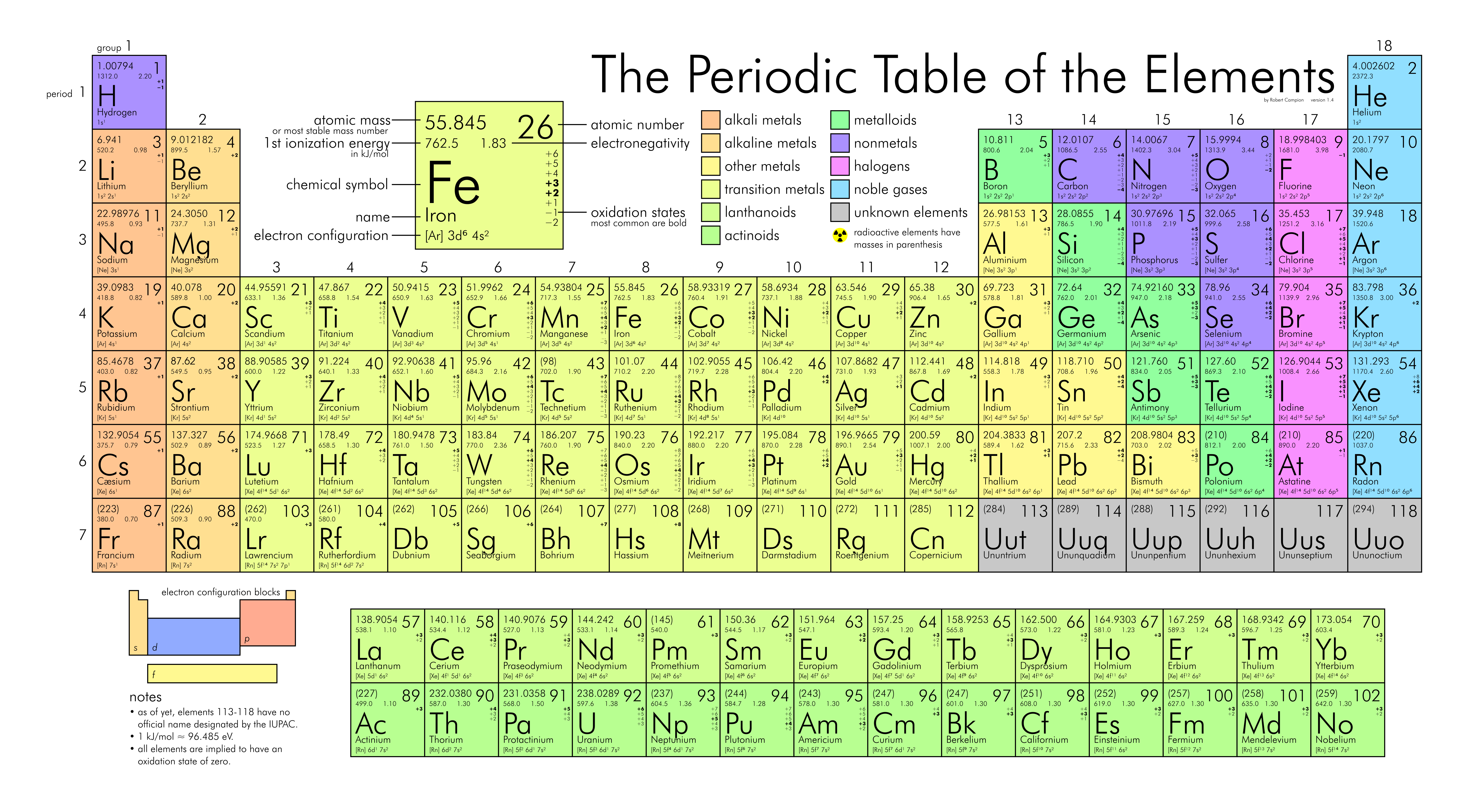 The periodic table of the elements of the world, showing element names, oxidation states, electron negativities, first ionization energies, and electron configurations.